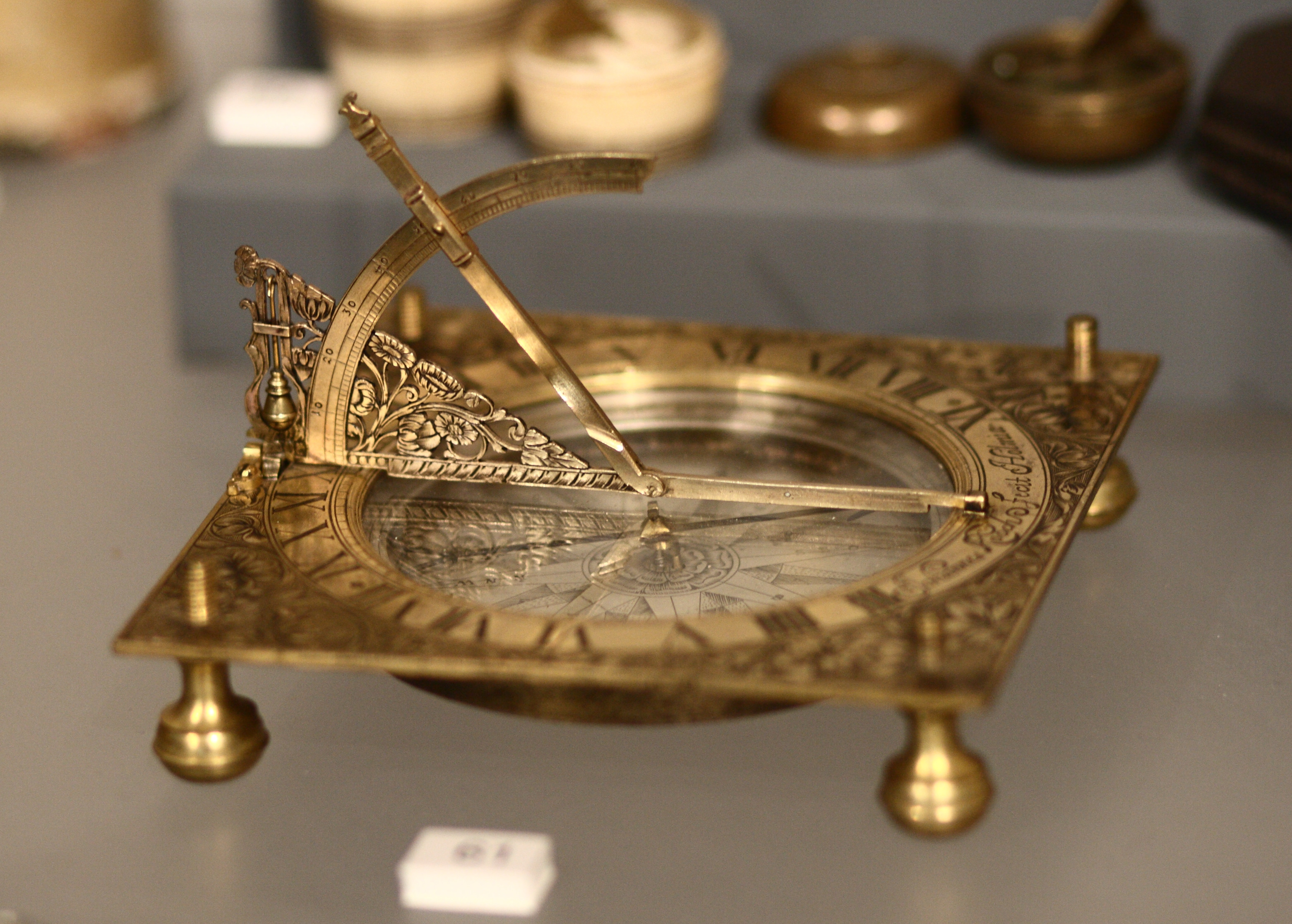 A universal compass sundial from Stockholm circa 1650-1679, on display at the Putnam Gallery in the Harvard Science Center